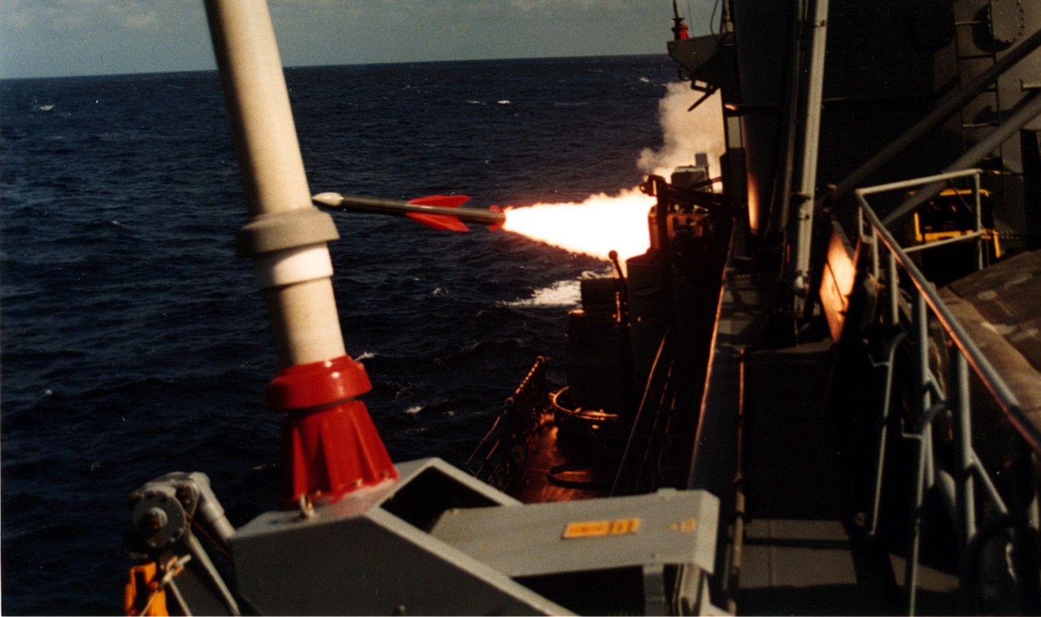 A launching Exocet MM 38 anti-ship missile from the Schleswig-Holstein destroyer